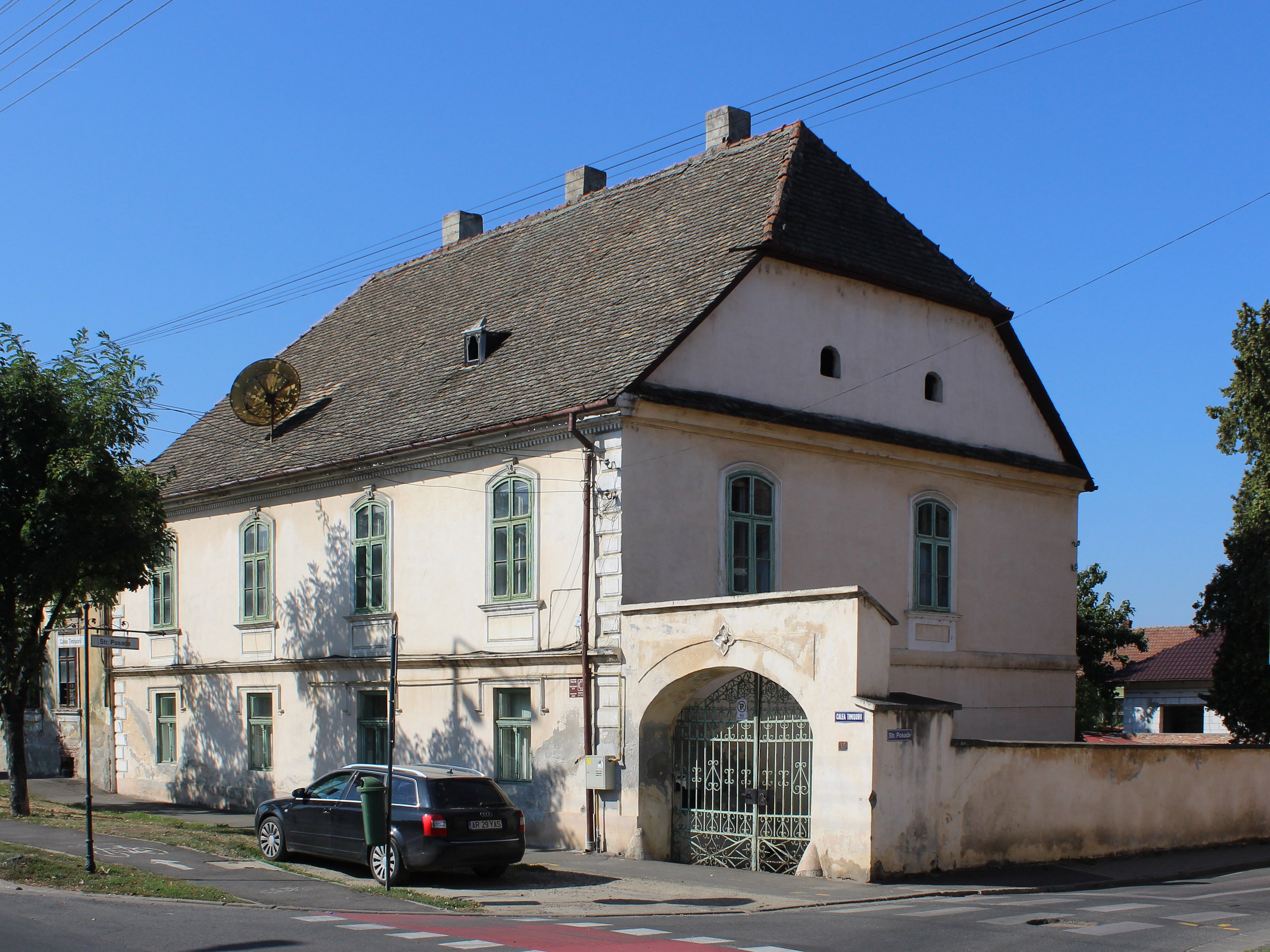 Beller House in Arad, Romania, built 1800–1850